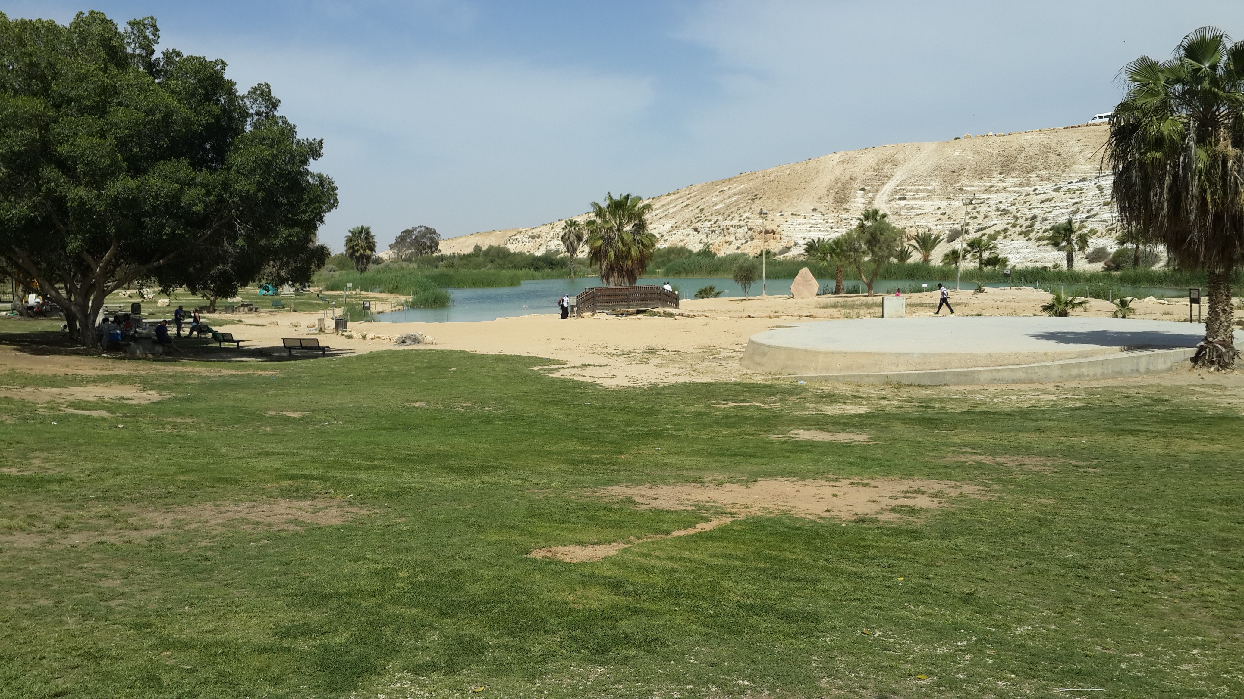 Geography of Israel